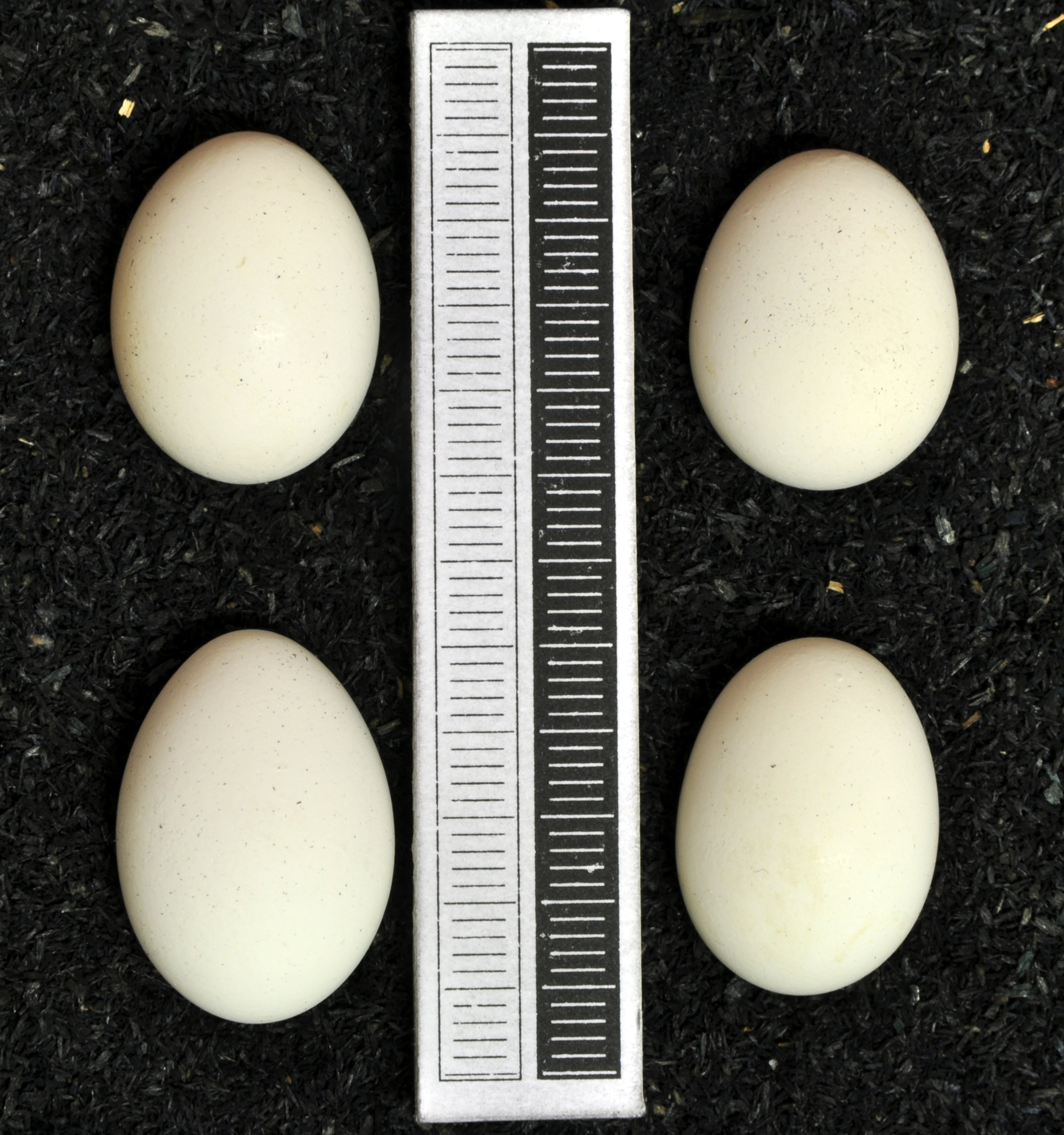 Yellow-collared lovebird Agapornis personatus , egg, Coll. Museum Wiesbaden